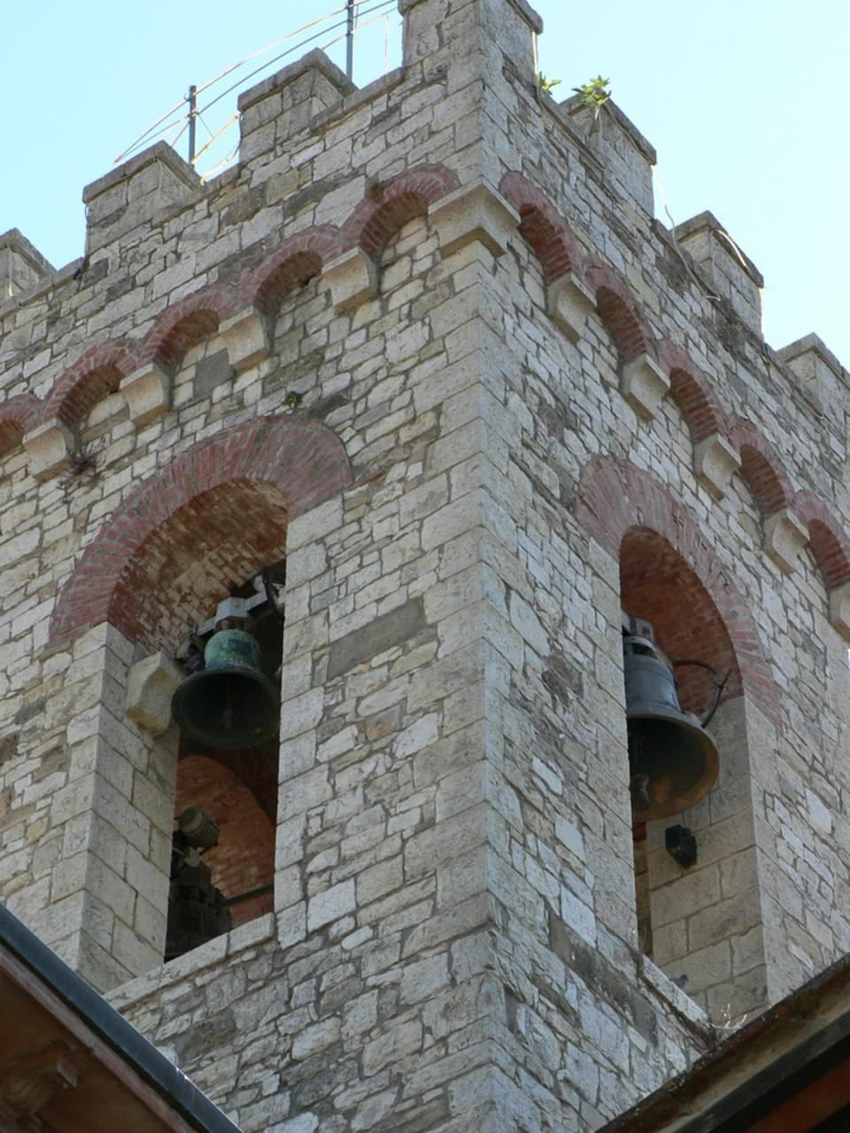 Image title: Bell tower closeup Image from Public domain images website